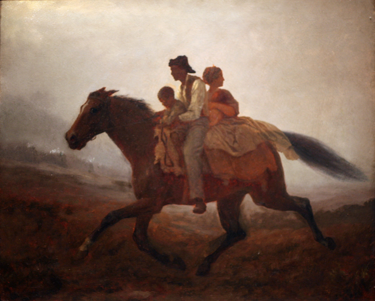 Eastman Johnson (American, 1824-1906). A Ride for Liberty -- The Fugitive Slaves, ca. 1862. Oil on paper board, 21 15/16 x 26 1/8 in. (55.8 x 66.4 cm). Brooklyn Museum, Gift of Gwendolyn O. L. Conkling, 40.59a-b.